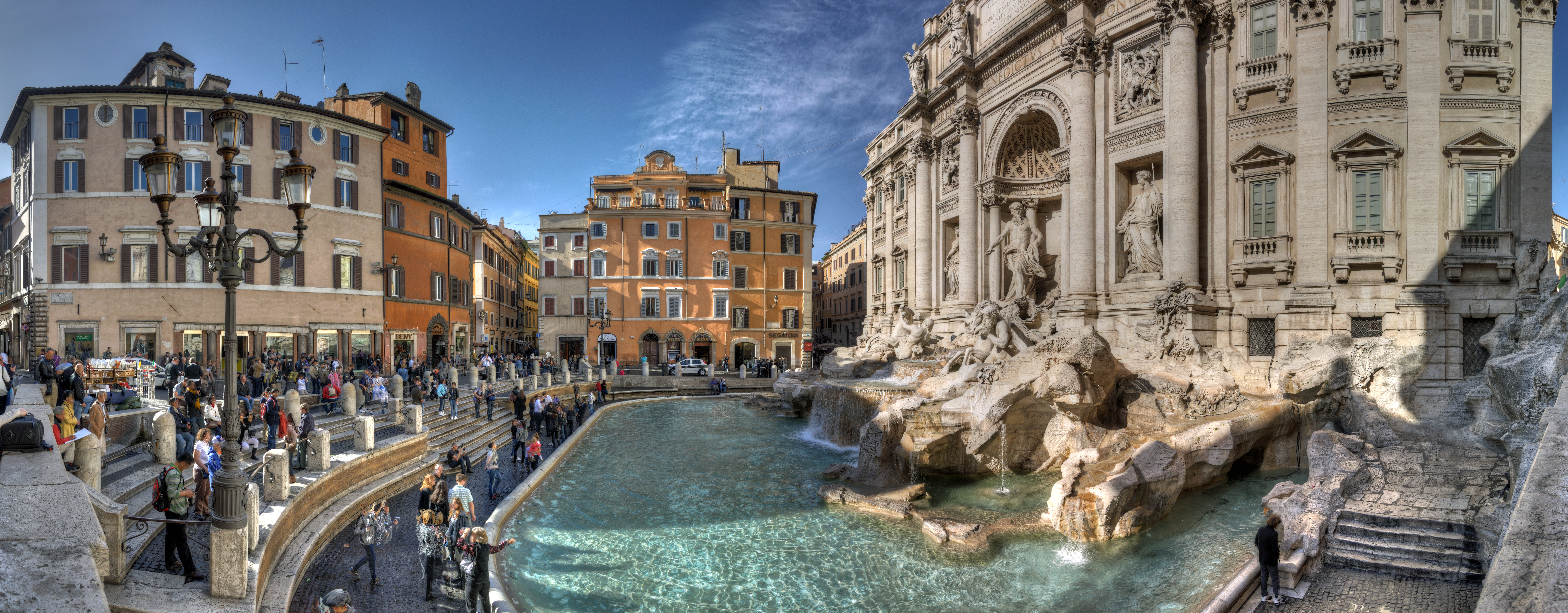 Handheld HDR Panorama